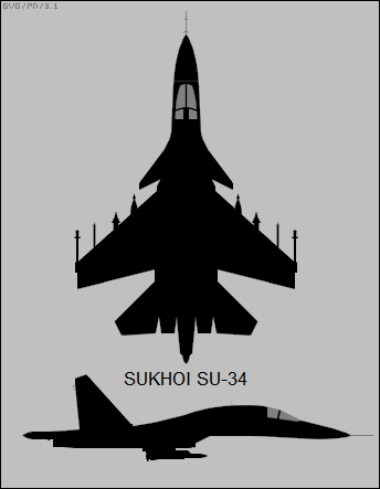 Su-34